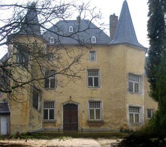 Castle at Wintrange, Luxembourg.